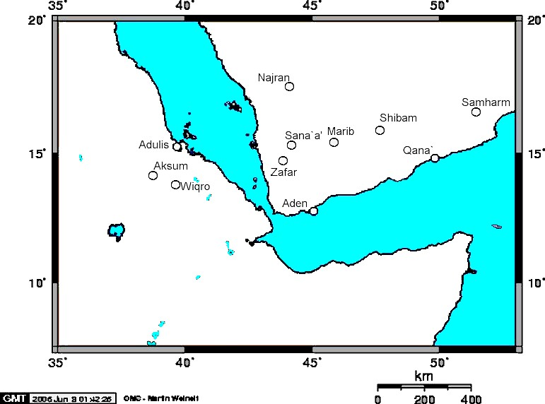 Created by me (Yom) of Aksum and South Arabia. Just important cities around 3rd-7th c. AD - blank to add kingdoms and the like.